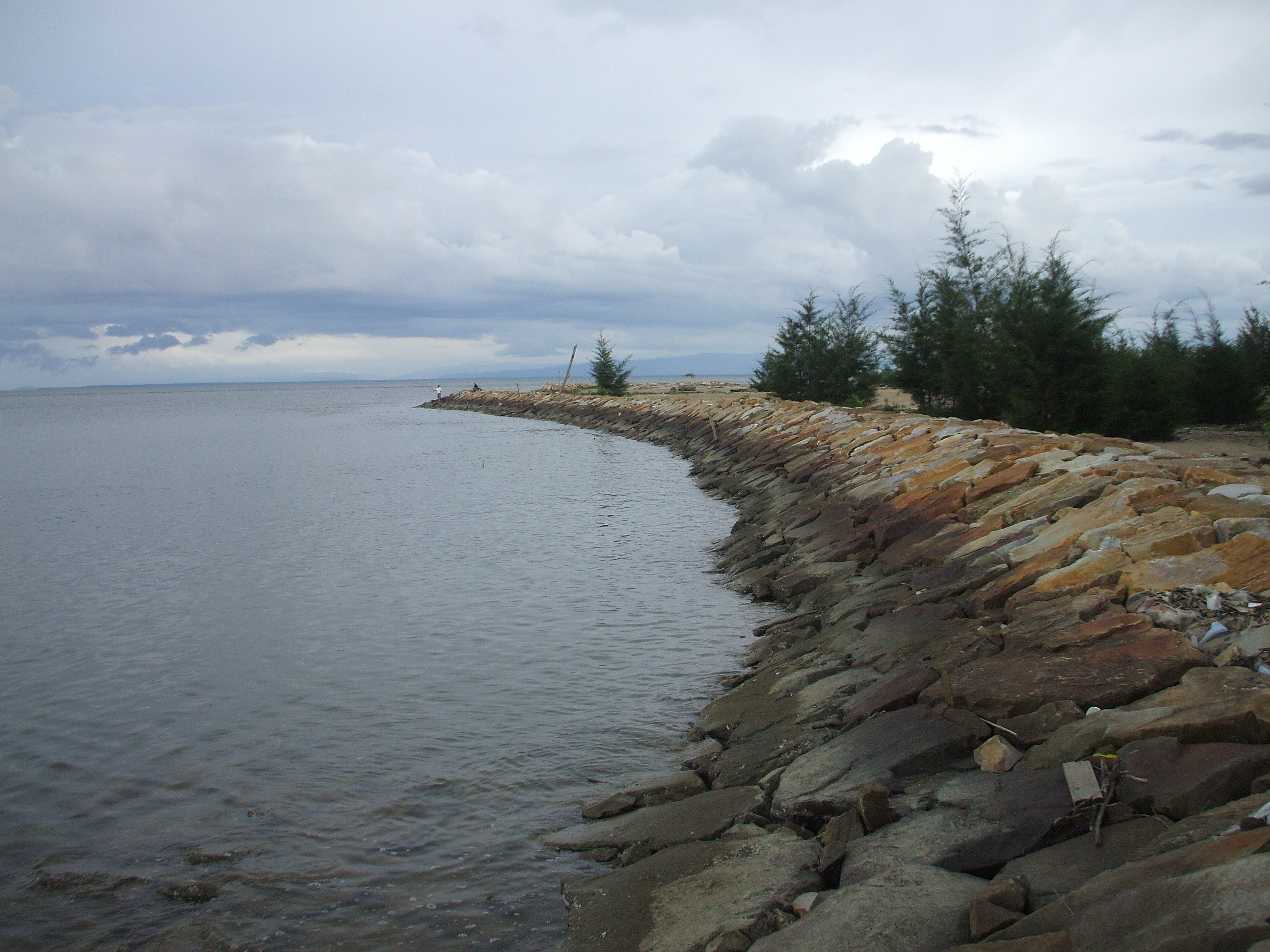 Pantai Serasa,Brunei.